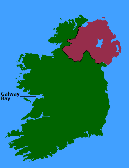 Location map of Galway Bay, Republic of Ireland